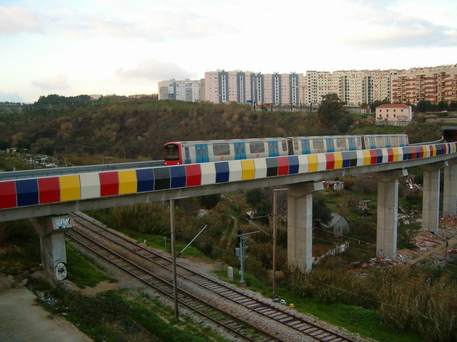 Linha Vermelha (Metro de Lisboa) - Viaduto (with train) between stations Olaias and Bela Vista